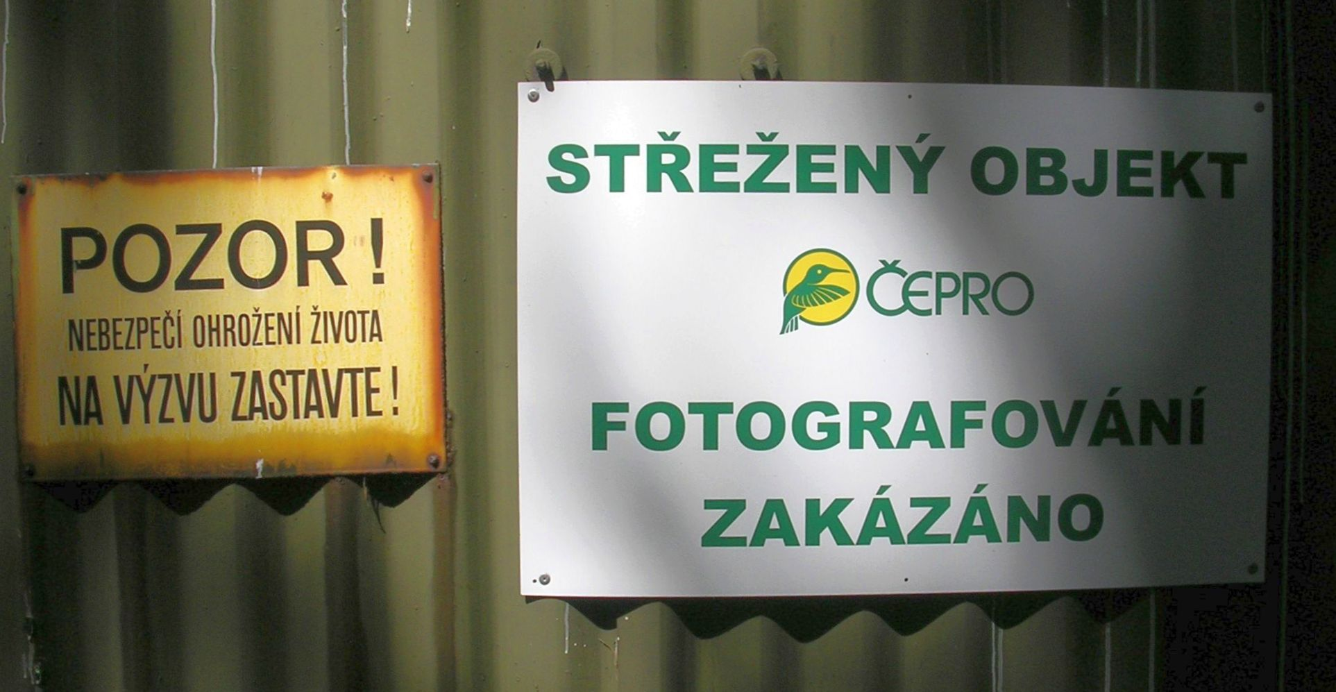 Bechlín, Litoměřice District, the Czech Republic. - Google Maps - Google Earth